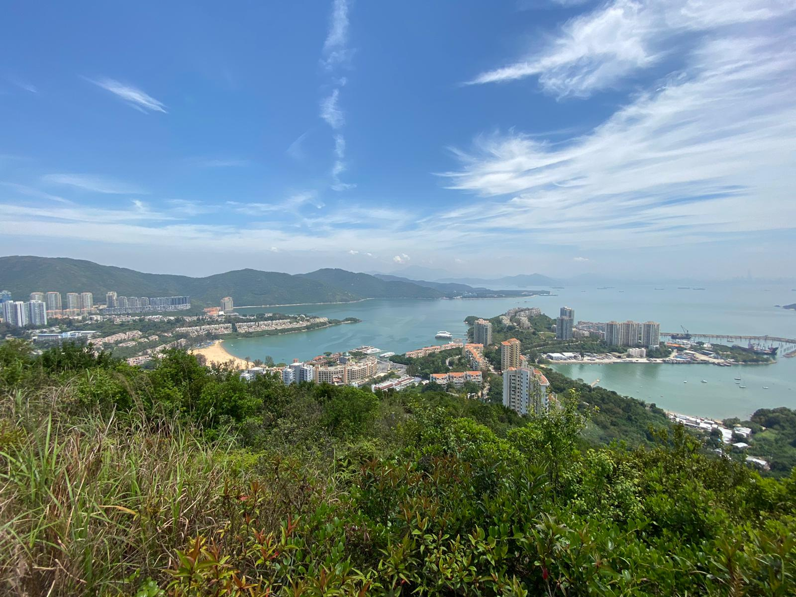 This is the whole picture of the Discovery Bay development in 2020.